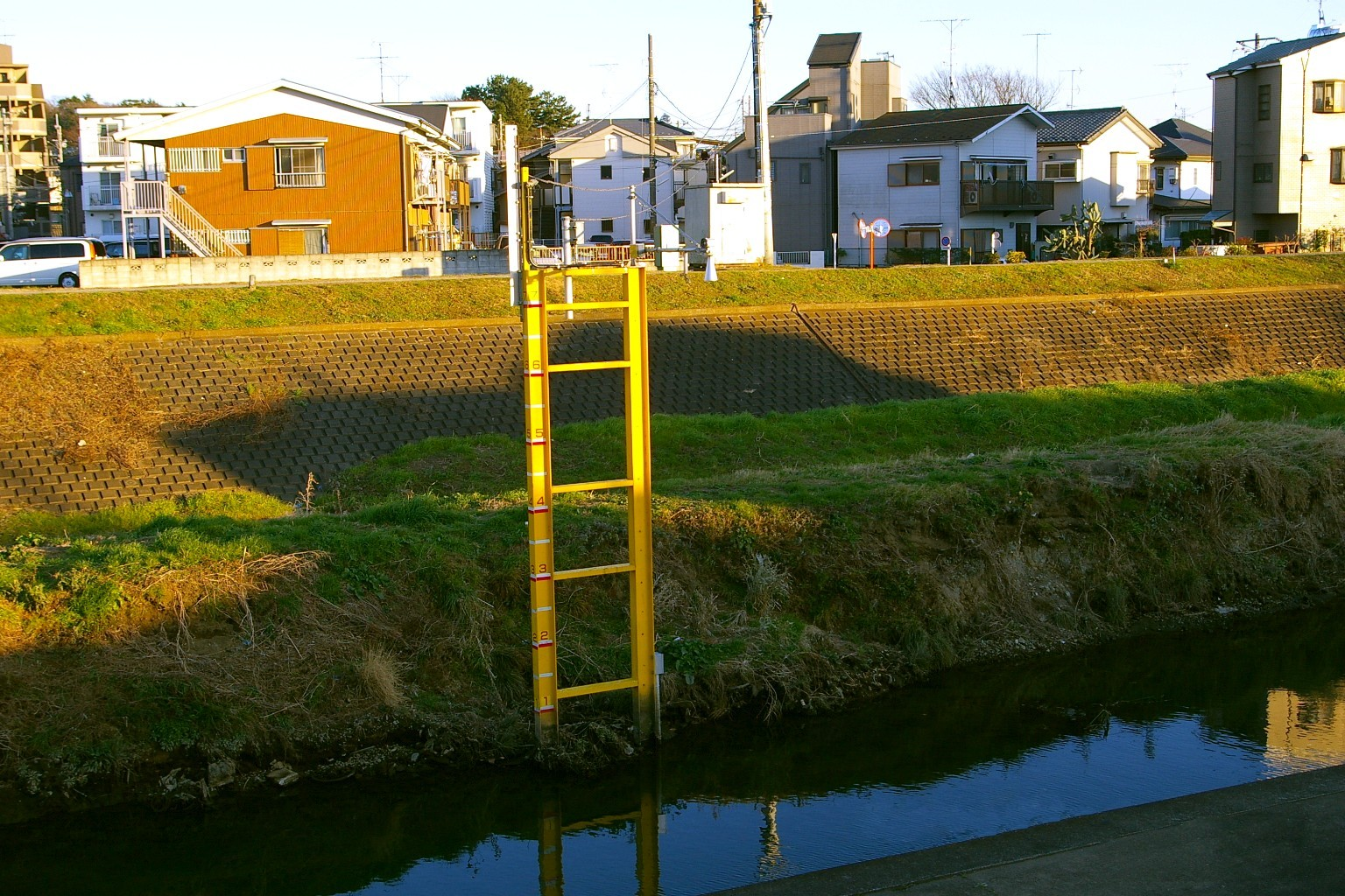 This picture taken by me in May, 2008 Kanagawa Japan.